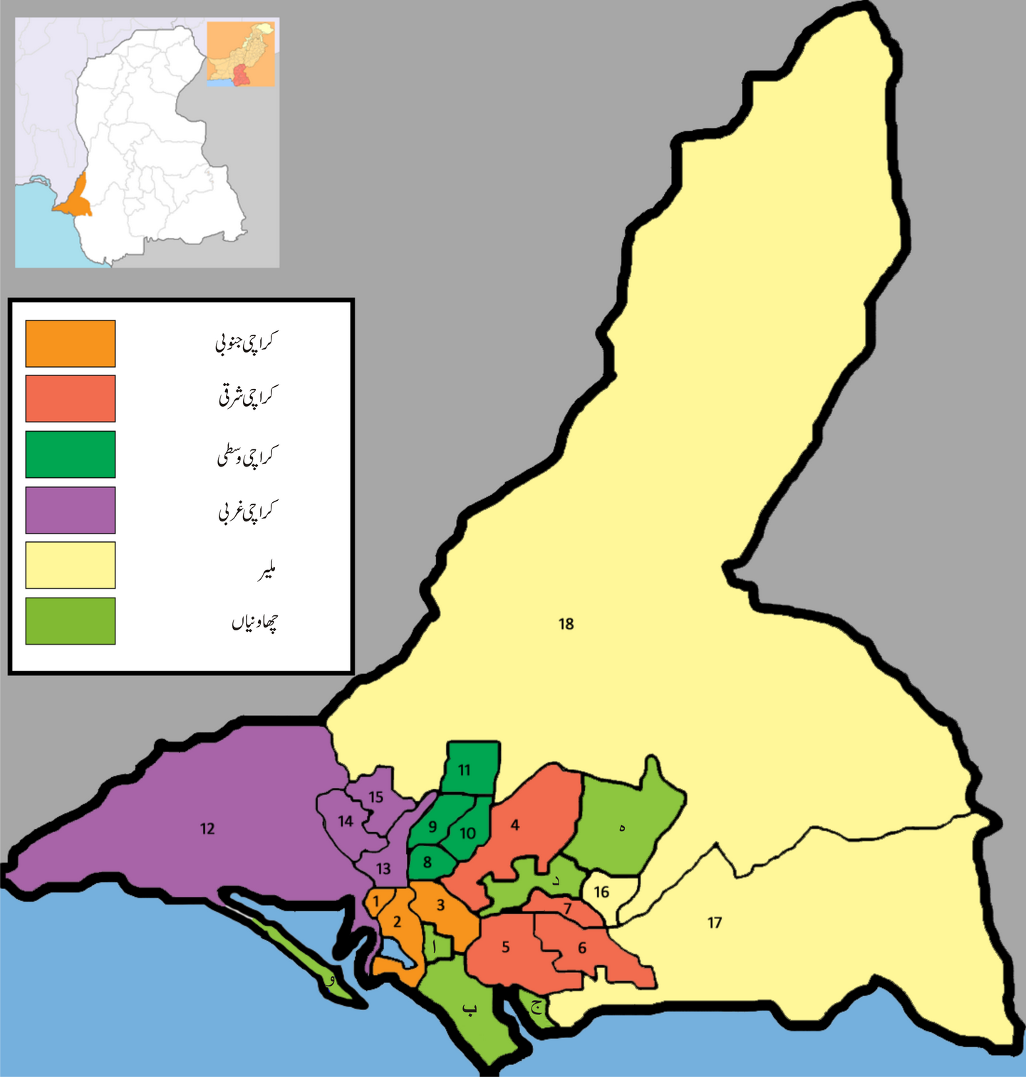 Karachi Administration Urdu